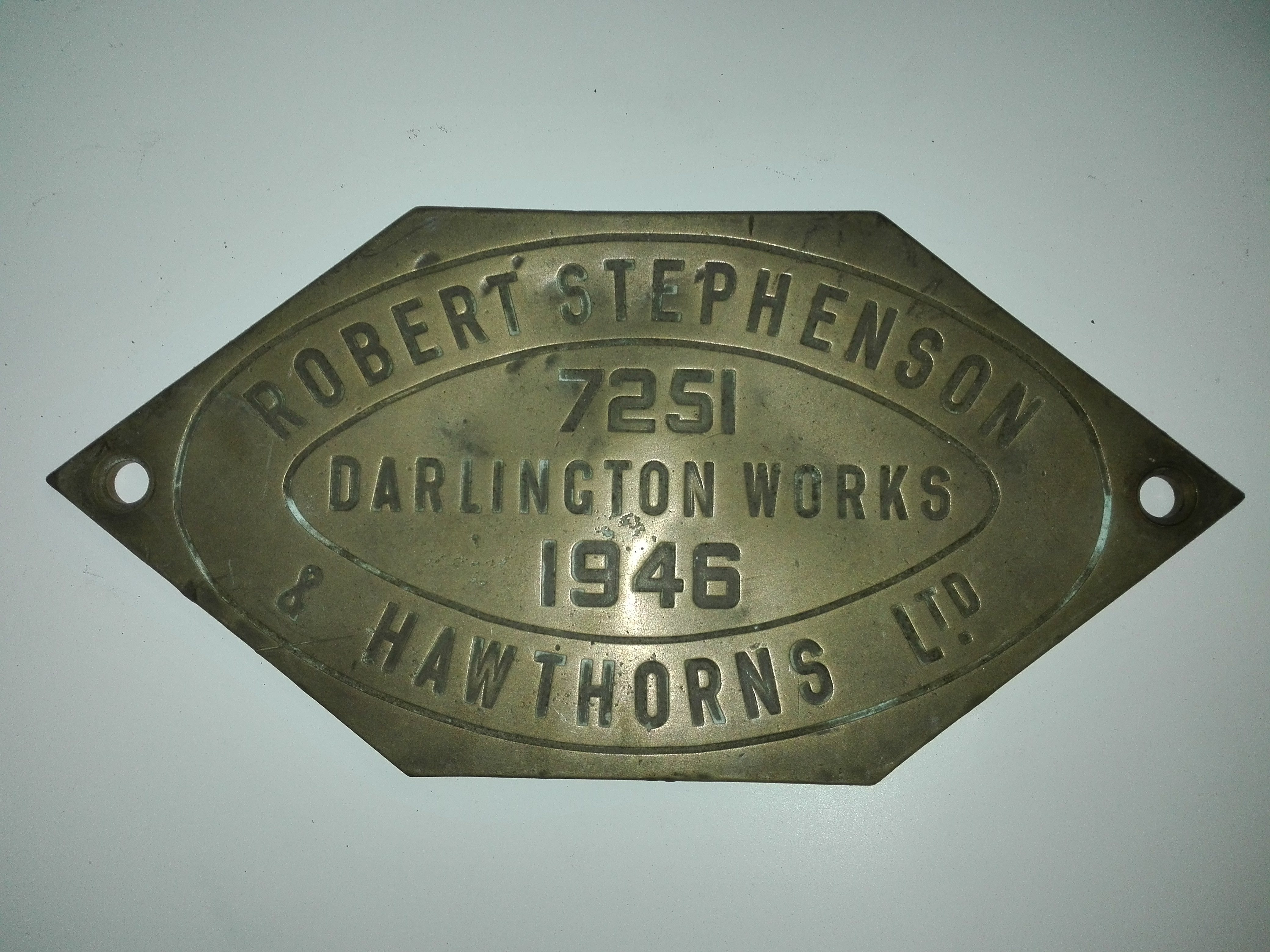 Class 19D 2739 (Builders Plate)